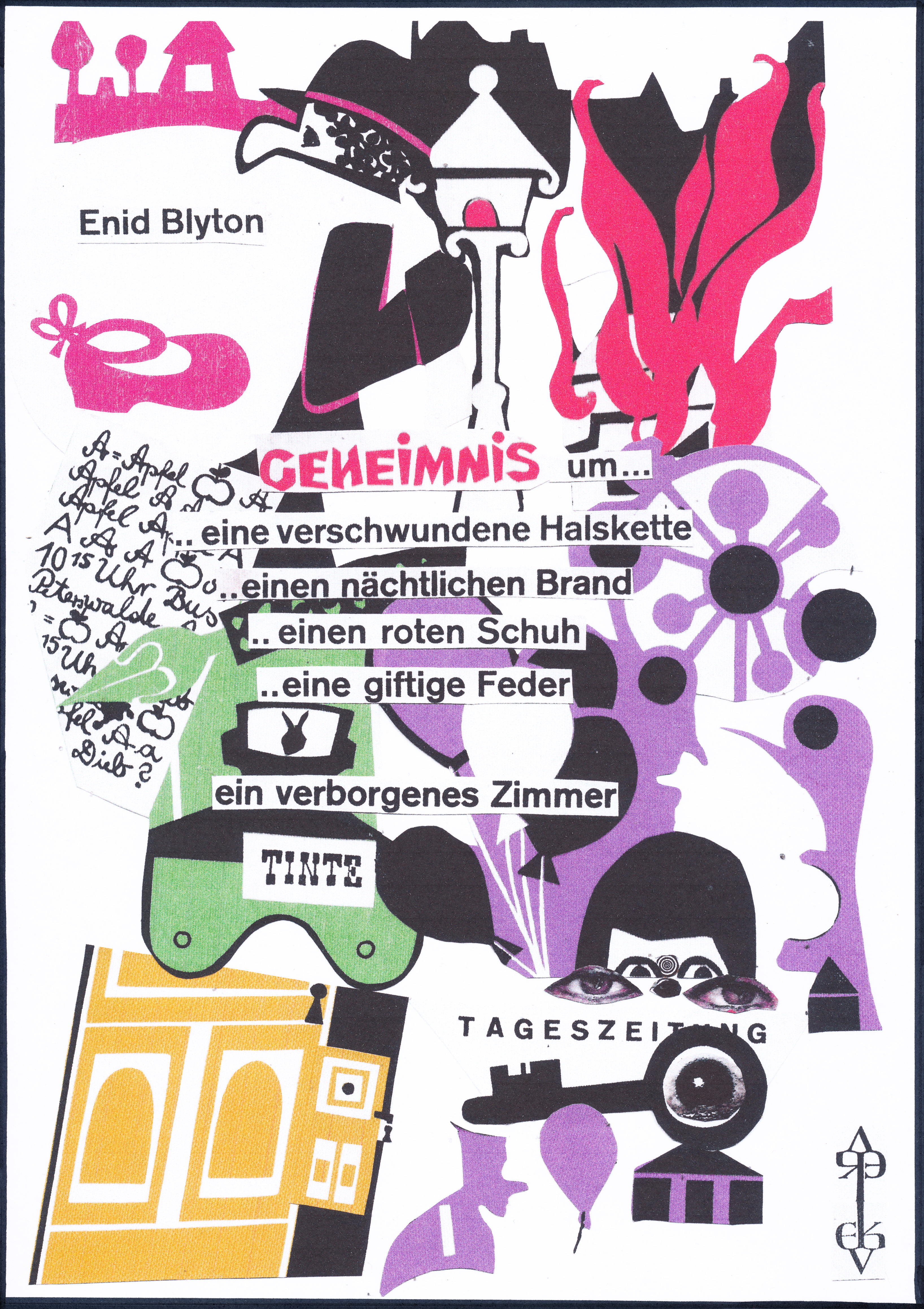 Collage of German book covers of the children's book series Mystery of… by Enid Blyton (editions 1971/72)